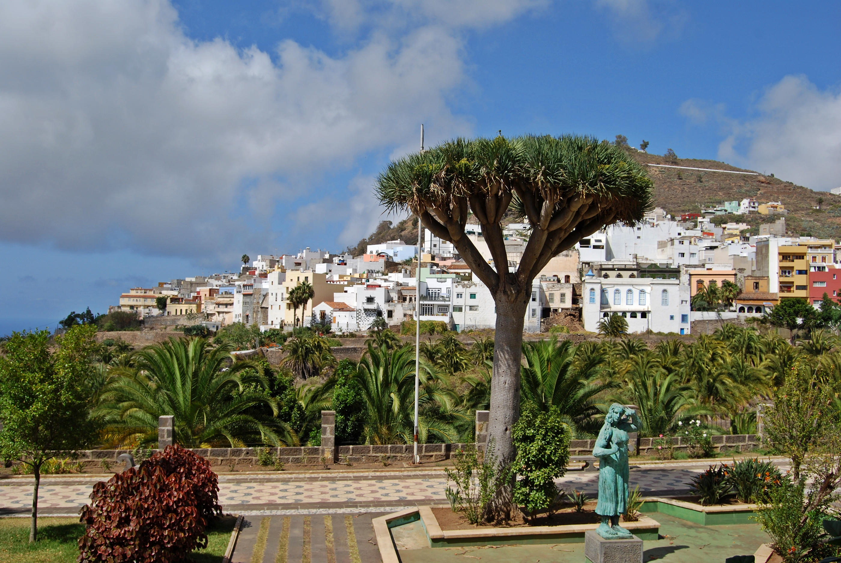 The city park of Arucas, Gran Canaria.